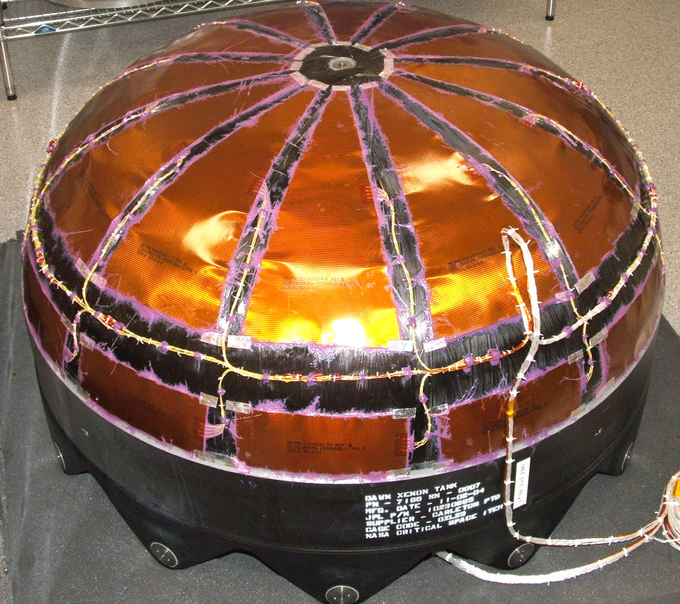 Xenon tank - composite overwrapped pressure vessel with titanium liner